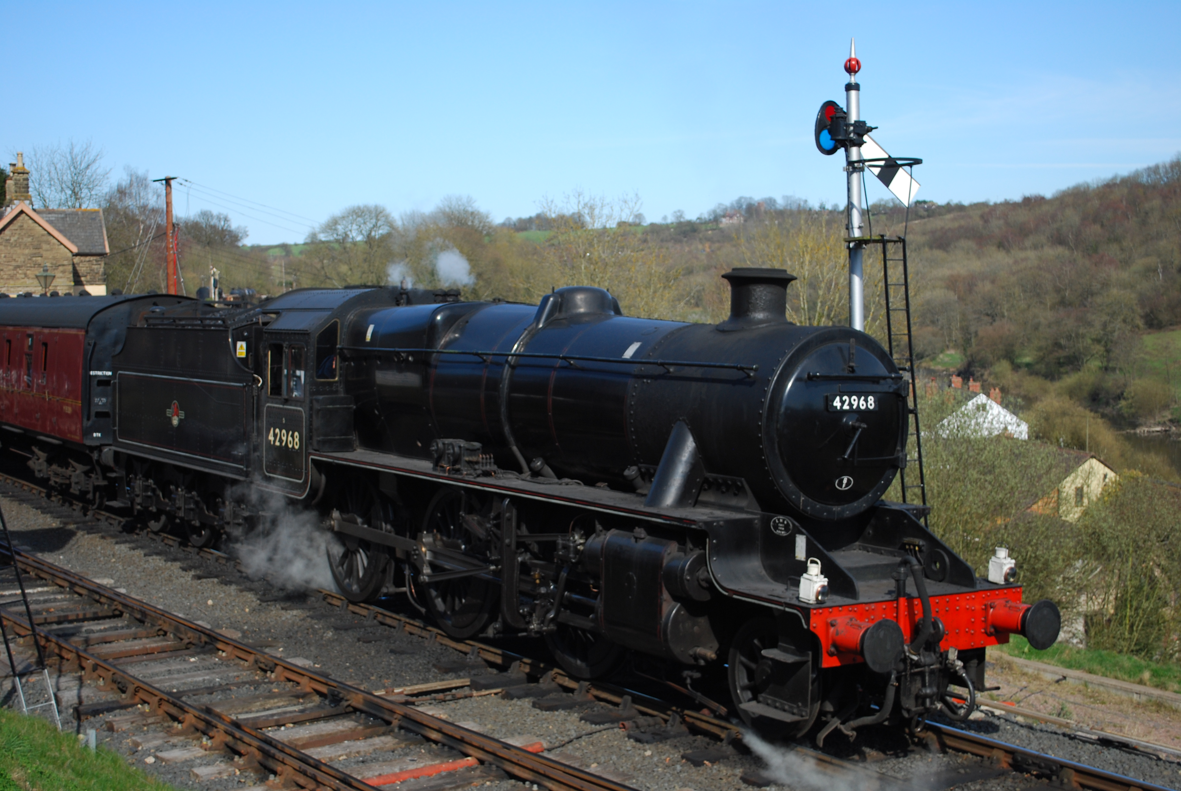 LMS Stanier Class "5MT" 2-6-0 No.42968 (ex-LMS No.2968; ex-No.13268) with Fowler 3,500 gll tender in BR lined black, leaving Highley on a Bridgnorth - Kidderminster train, Severn Valley Railway, 03/12.